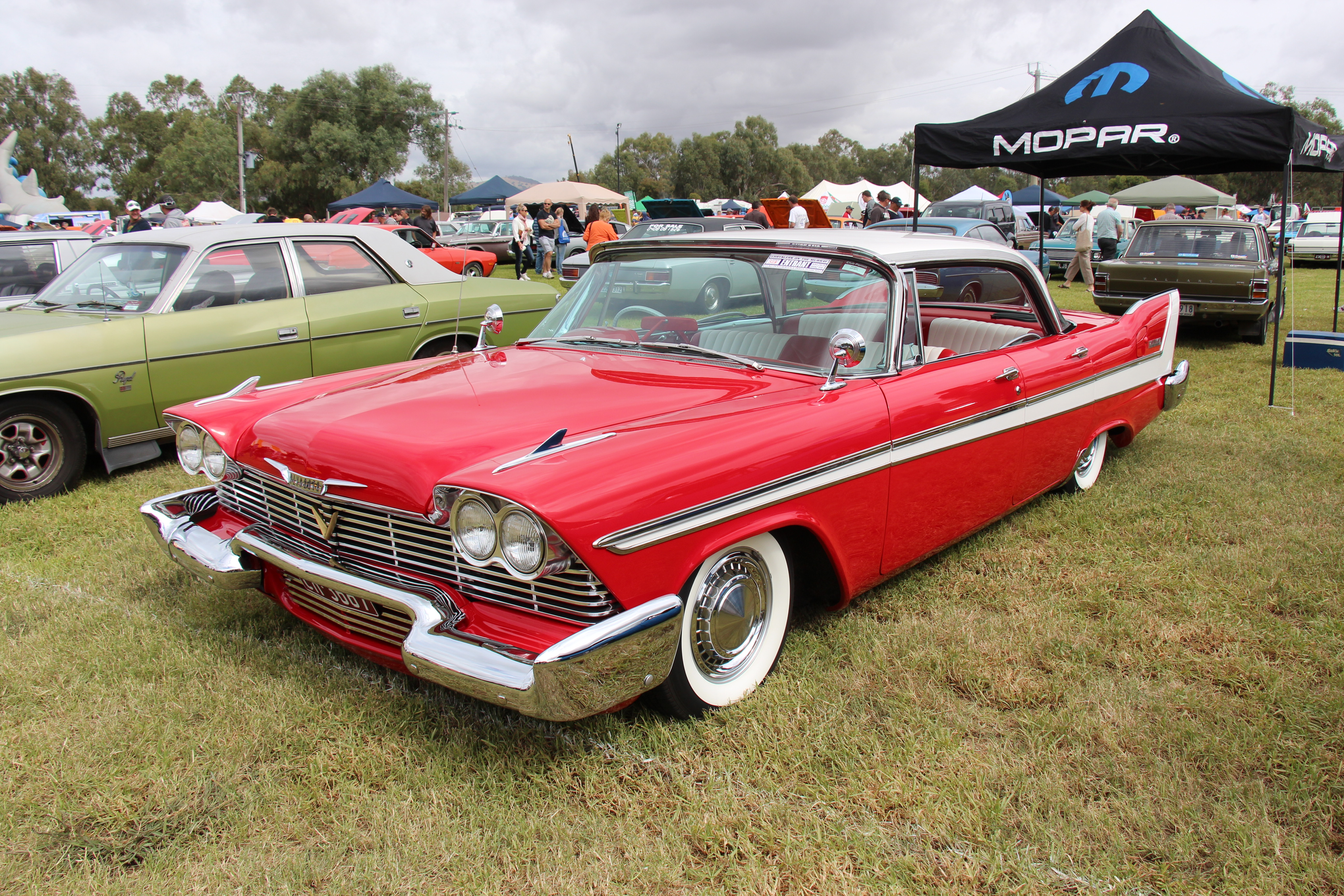 Chrysler Australia also produced the 4 door Hardtop in 1958